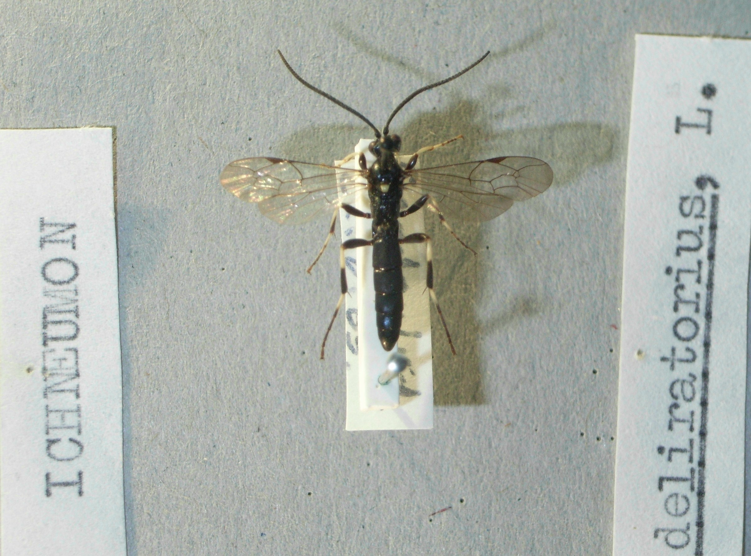 Ichneumon deliratorius